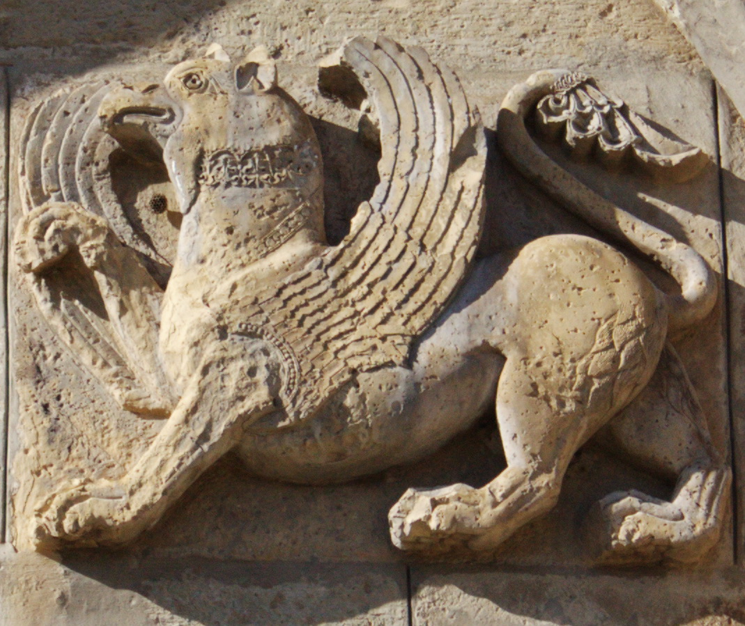 The griffin on the wall of Samtavisi church.